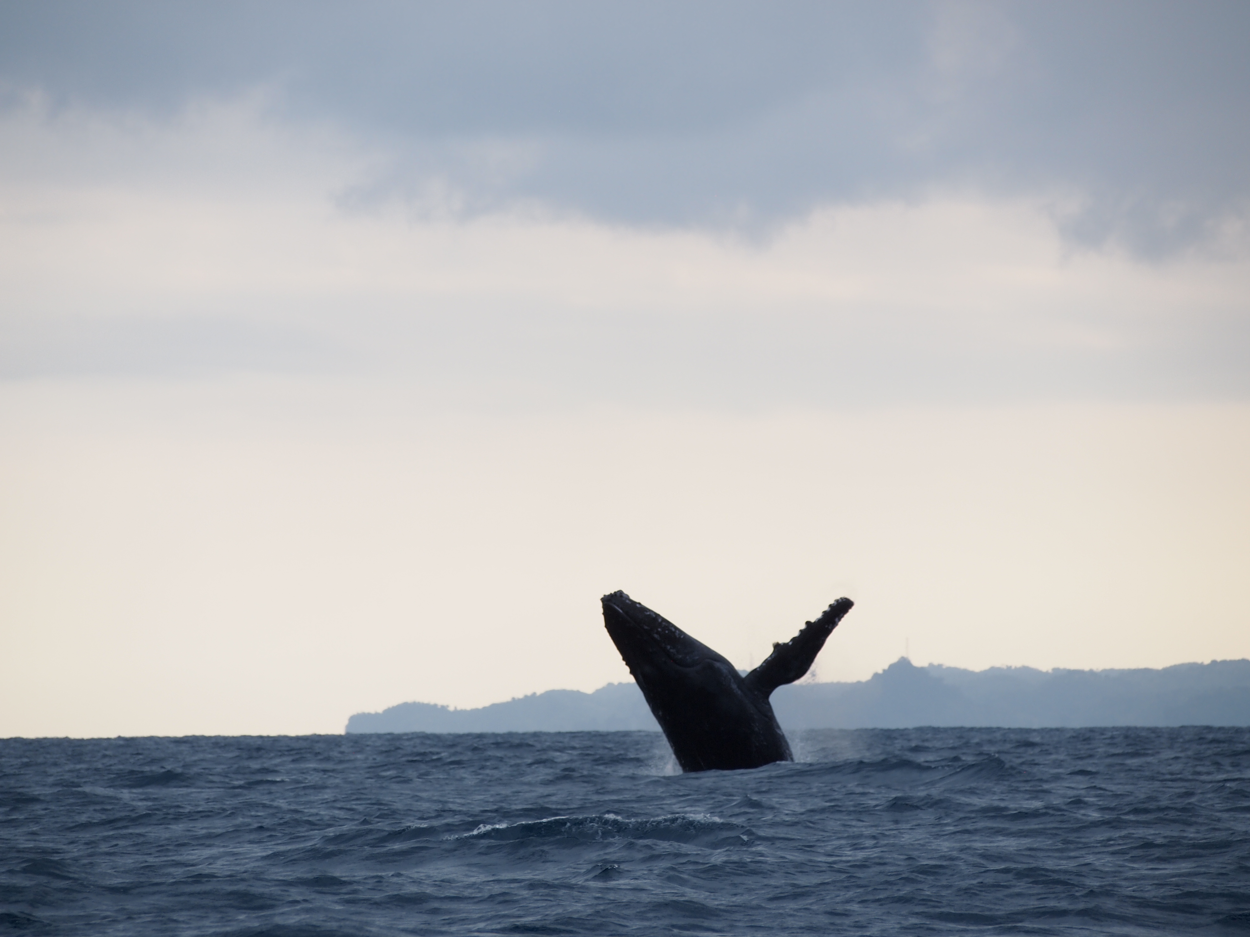 Humpback whale Sainte Marie Madagascar July 2013